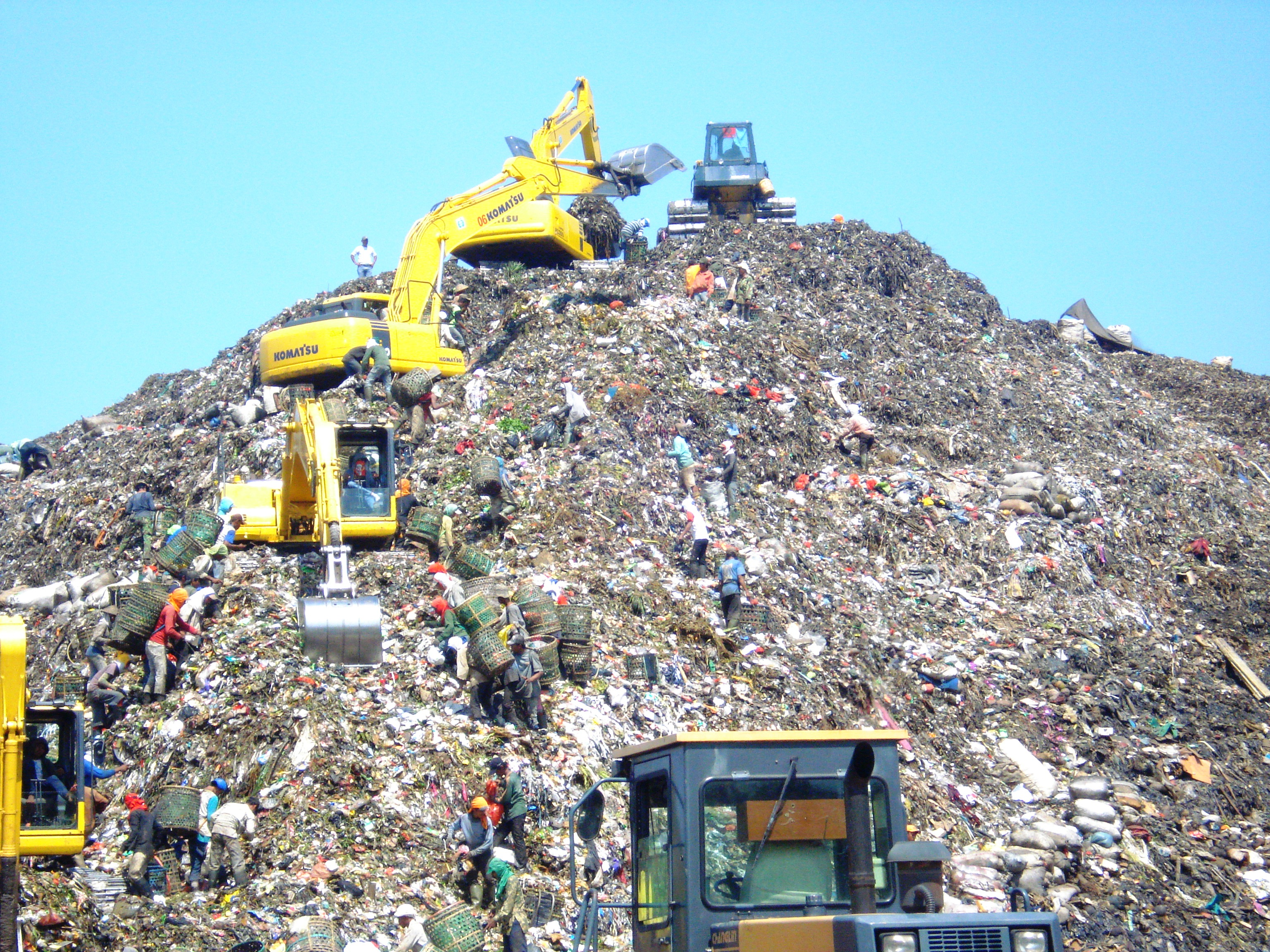 Mountain of garbage in Bantar Gebang with some excavator (Indonesia).